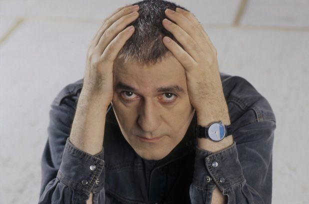 Ilja Richter rehearsing for his theater play Altweibersommer in Munich, Germany